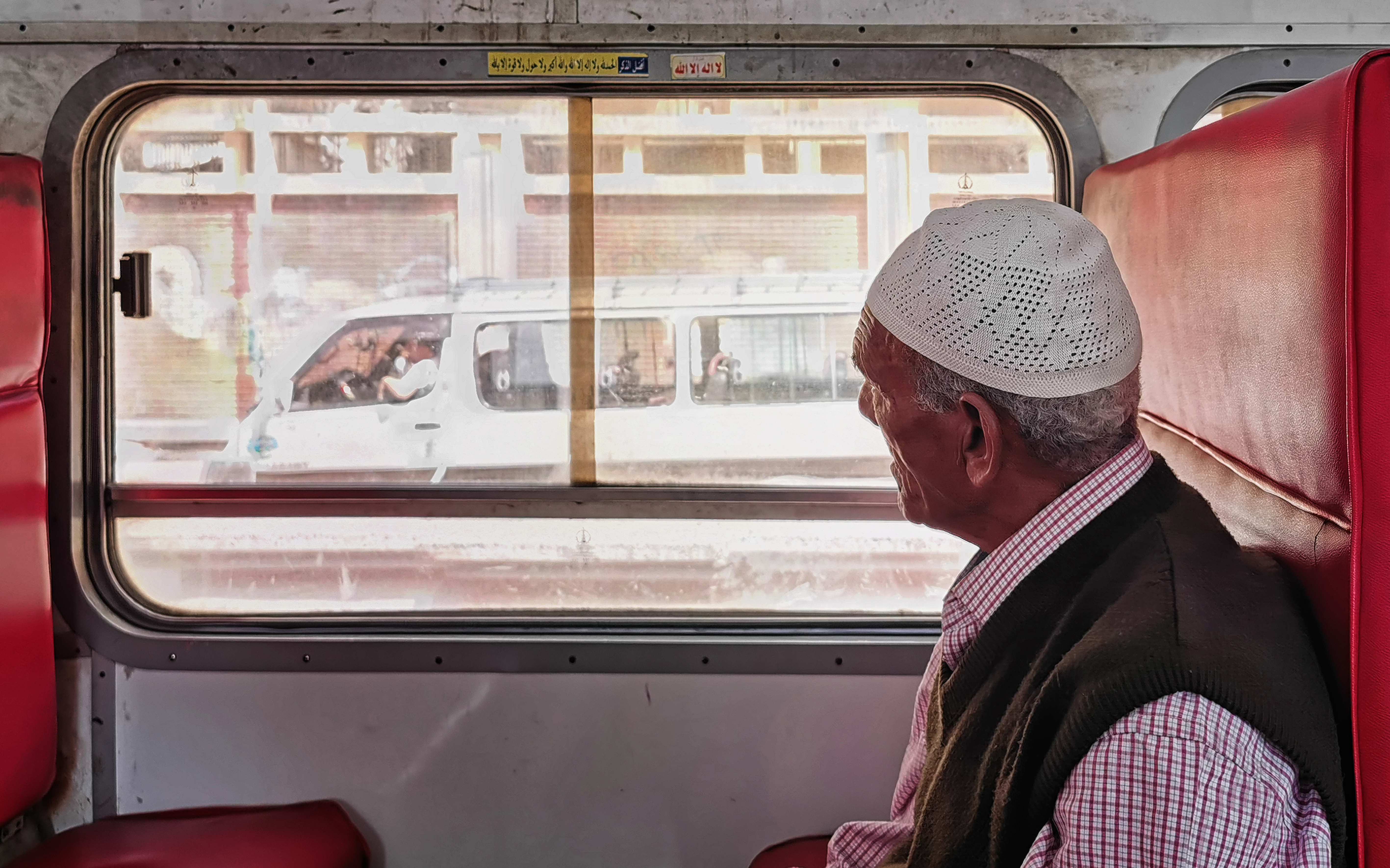 Old man in Alexandria Trams - Alexandria - Egypt This is an image with the theme "Africa on the Move or Transport" from: Egypt